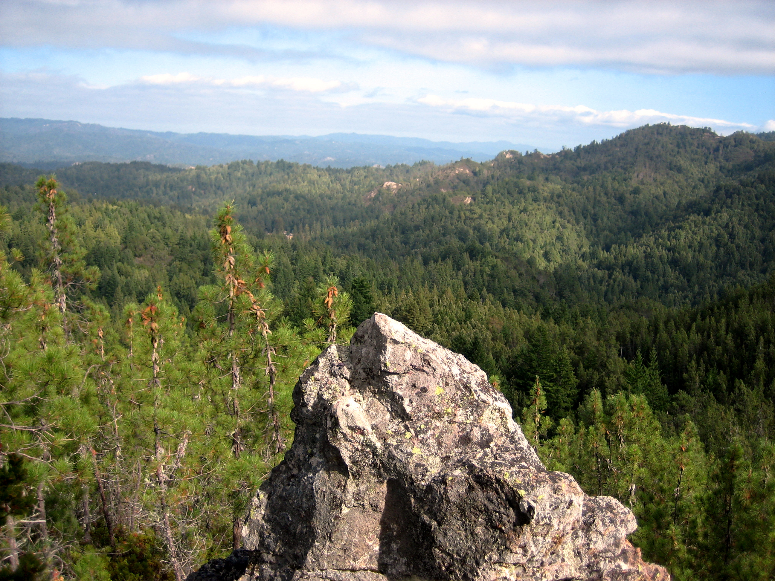 Knobcone Pine Pinus attenuata forest — Big Basin Redwoods State Park, Santa Cruz Mountains, California